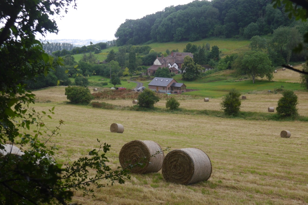 Burghope Court in the parish of Wellington, Herefordshire. Historic seat of the Goodere baronets